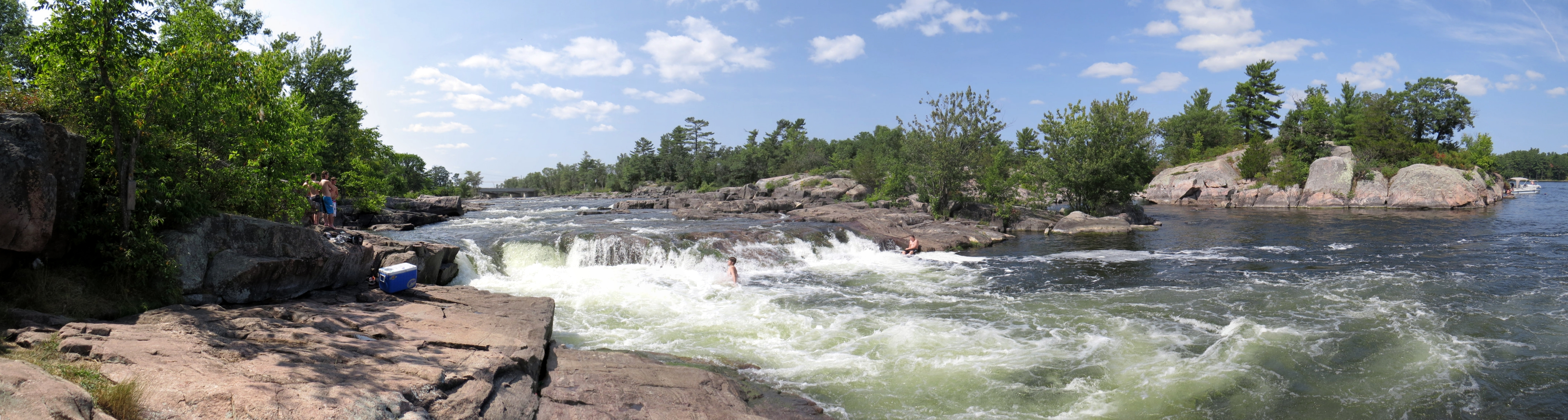 Burleigh Falls from below the falls, Ontario, Canada - Kawartha Lakes area